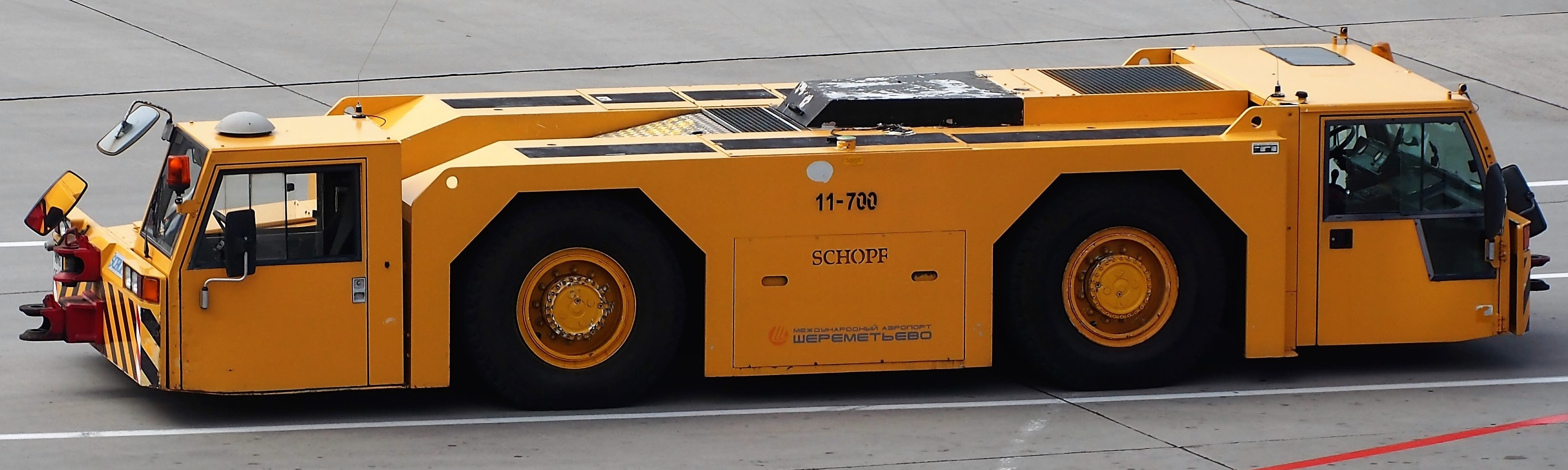 Photographed at Sheremetyevo International Airport.